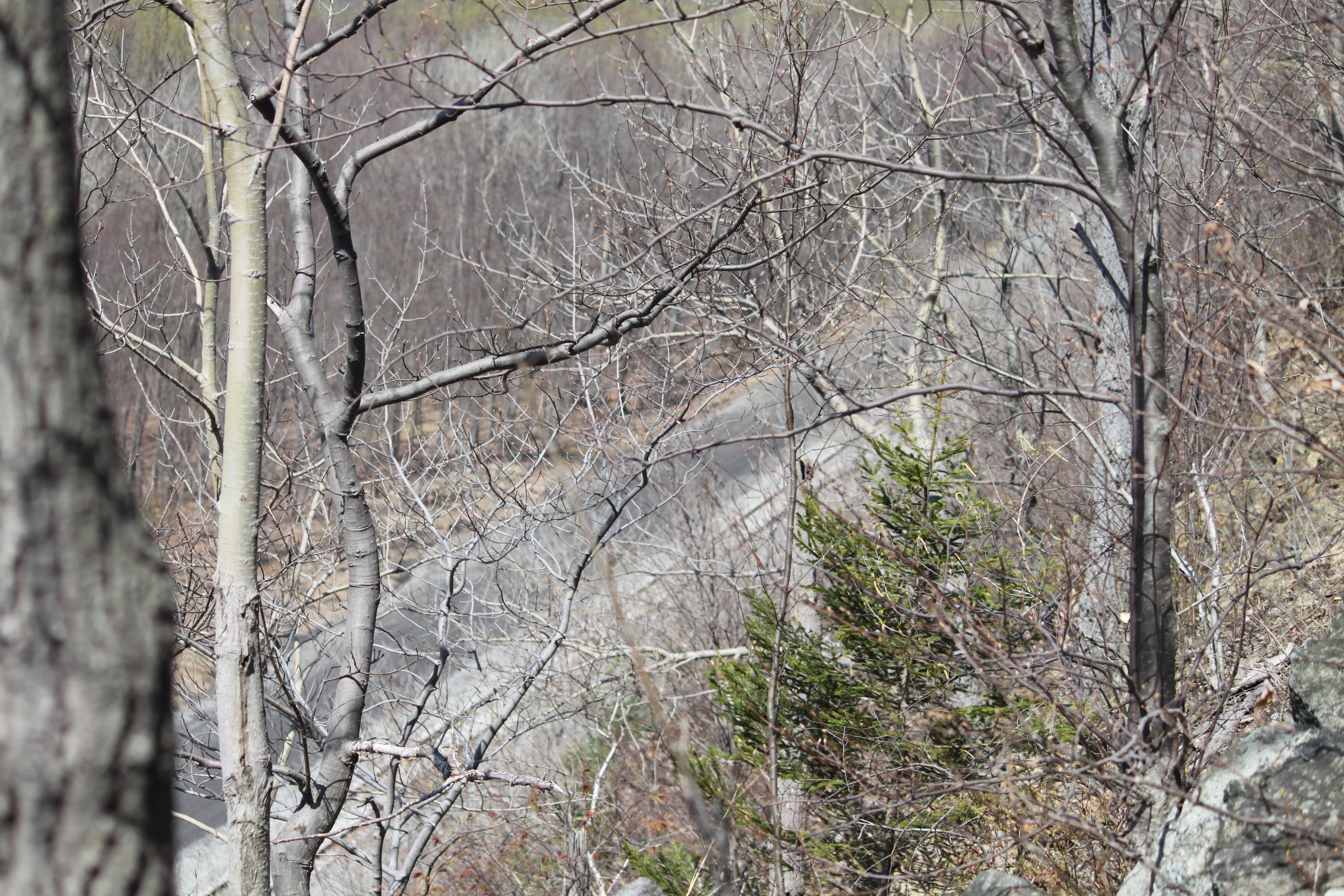 Taken from the top of Waltz & Reece Cut on the Lackawanna Cut-Off